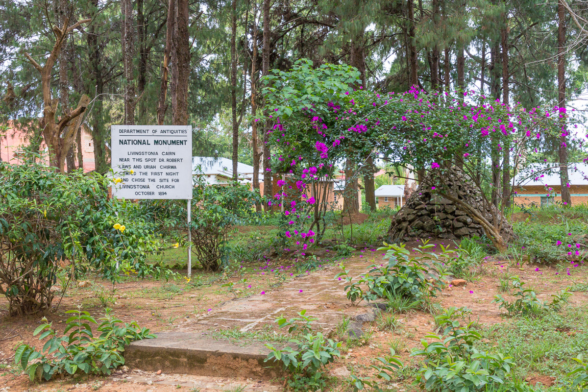 National Monument: Livingstonia Cairn. Near this spot Dr. Robert Laws and Uriah Chirwa camped the first night and chose the site for Livingstonia Church in October 1894.